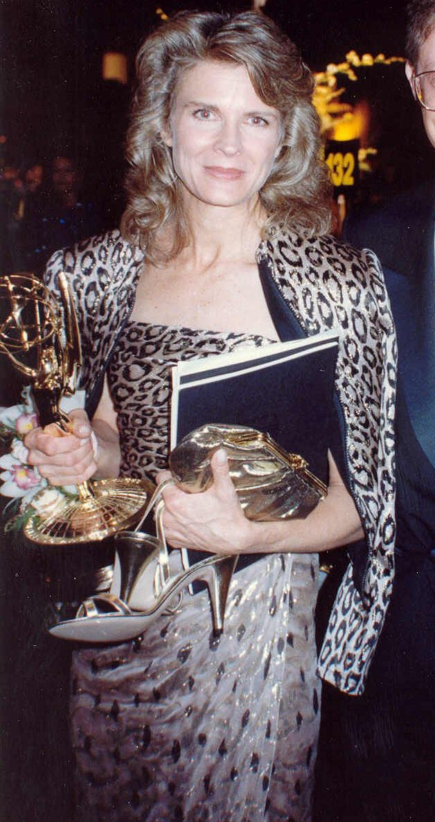 Photo taken at the 41st Emmy Awards 9/17/89. Permission granted to copy, publish, broadcast or post but please credit "photo by Alan Light" if you can.